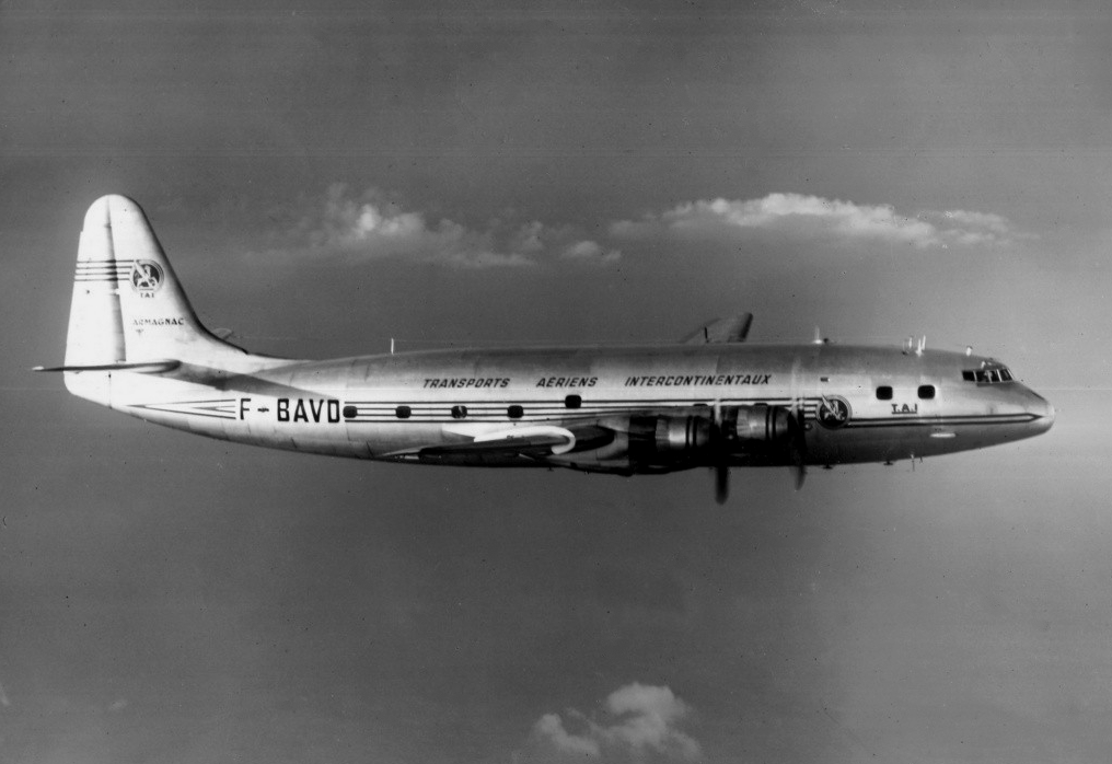 A French SNCASE S.E.2010 Armagnac (F-BAVD) in flight. F-BAVD was the first production series aircraft and flew on 30 December 1950. It went into service with "Transports Aeriens Intercontinentaux" (TAI) on 8 December 1952. A total of four S.E.2010s were delivered to TAI in December 1952, who used them for eight months and then discarded them as unprofitable. The aircraft passed to SAGETA (the Société Auxiliaire de Gérance et d'Exploitation de Transport Aériens) in 1953 who operated seven Armagnacs to ferry cargo, mail and troops from Toulouse, France, to Saigon in French Indochina. They were highly regarded in this role, but French rule in the area was almost over and they were surplus by mid-1954. Most Armagnacs were broken up in 1955.